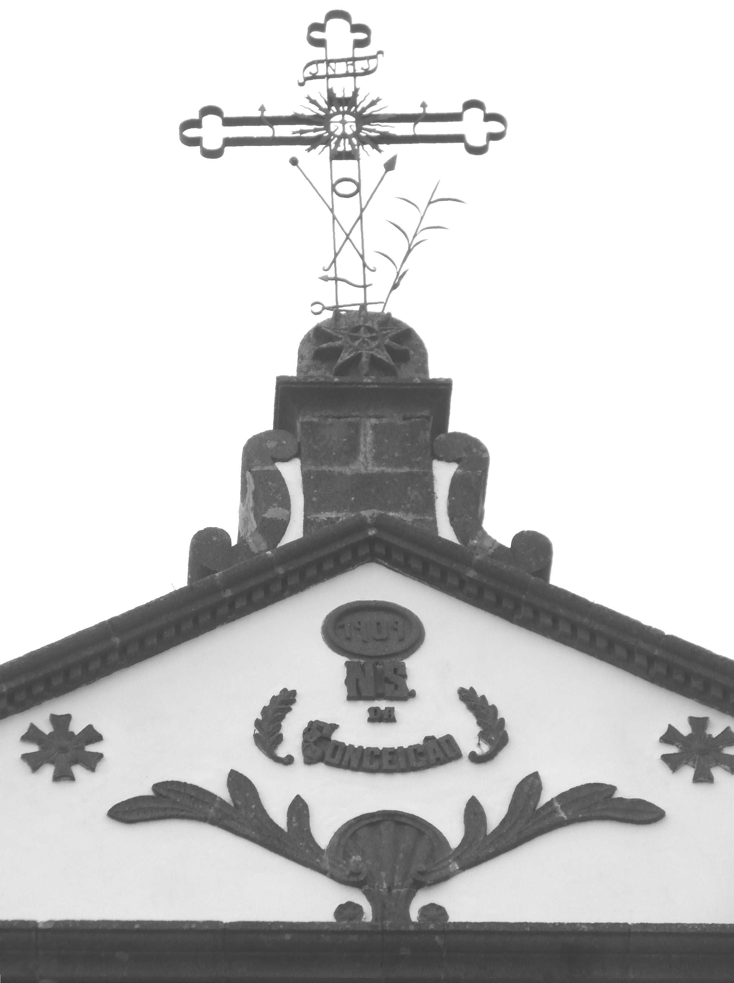 Conceição